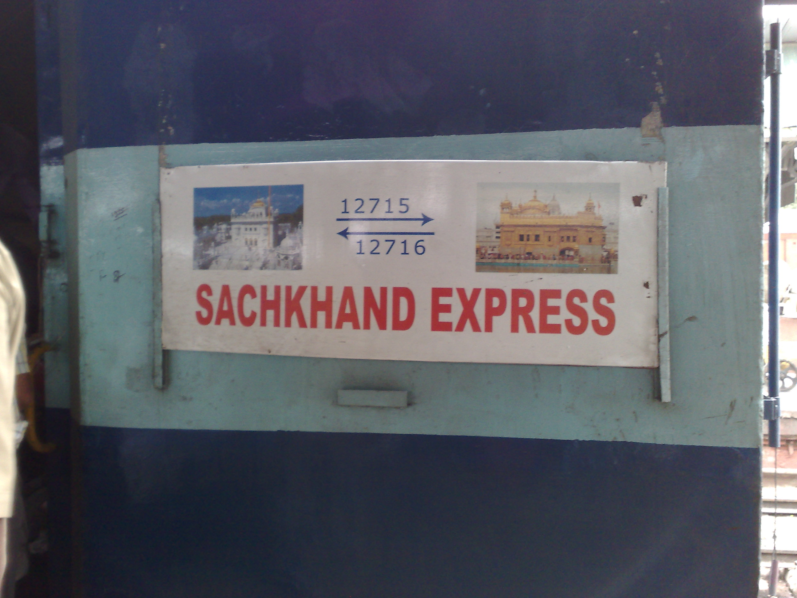 Sachkhand Express